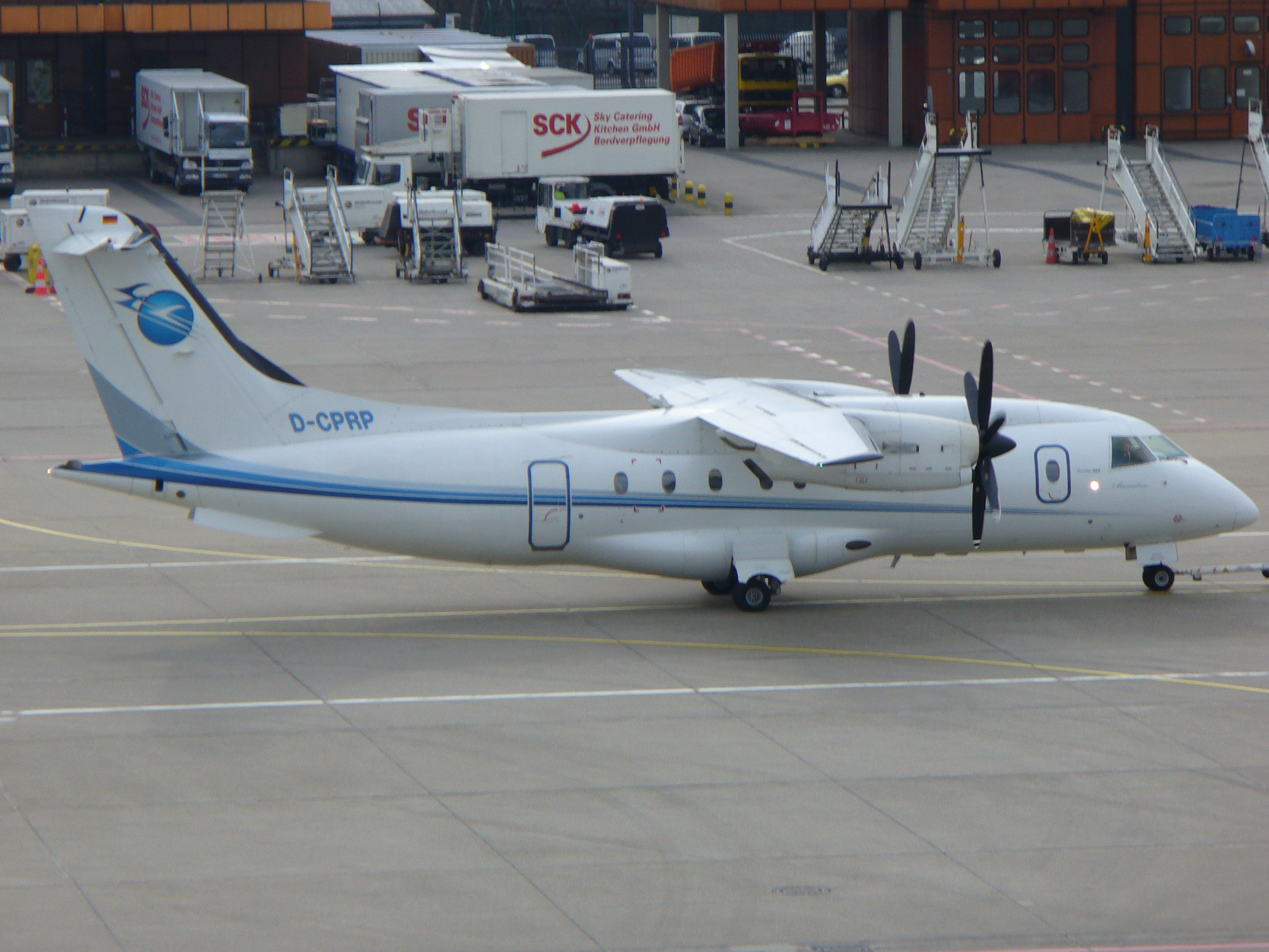 Dornier 328-100 "D-CPRP" of Cirrus Airlines at Berlin-Tegel Airport